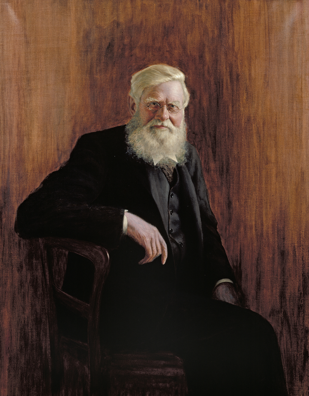 Alfred Russel Wallace (1823-1913) after a photograph by Elliott & Fry, 1903 1923